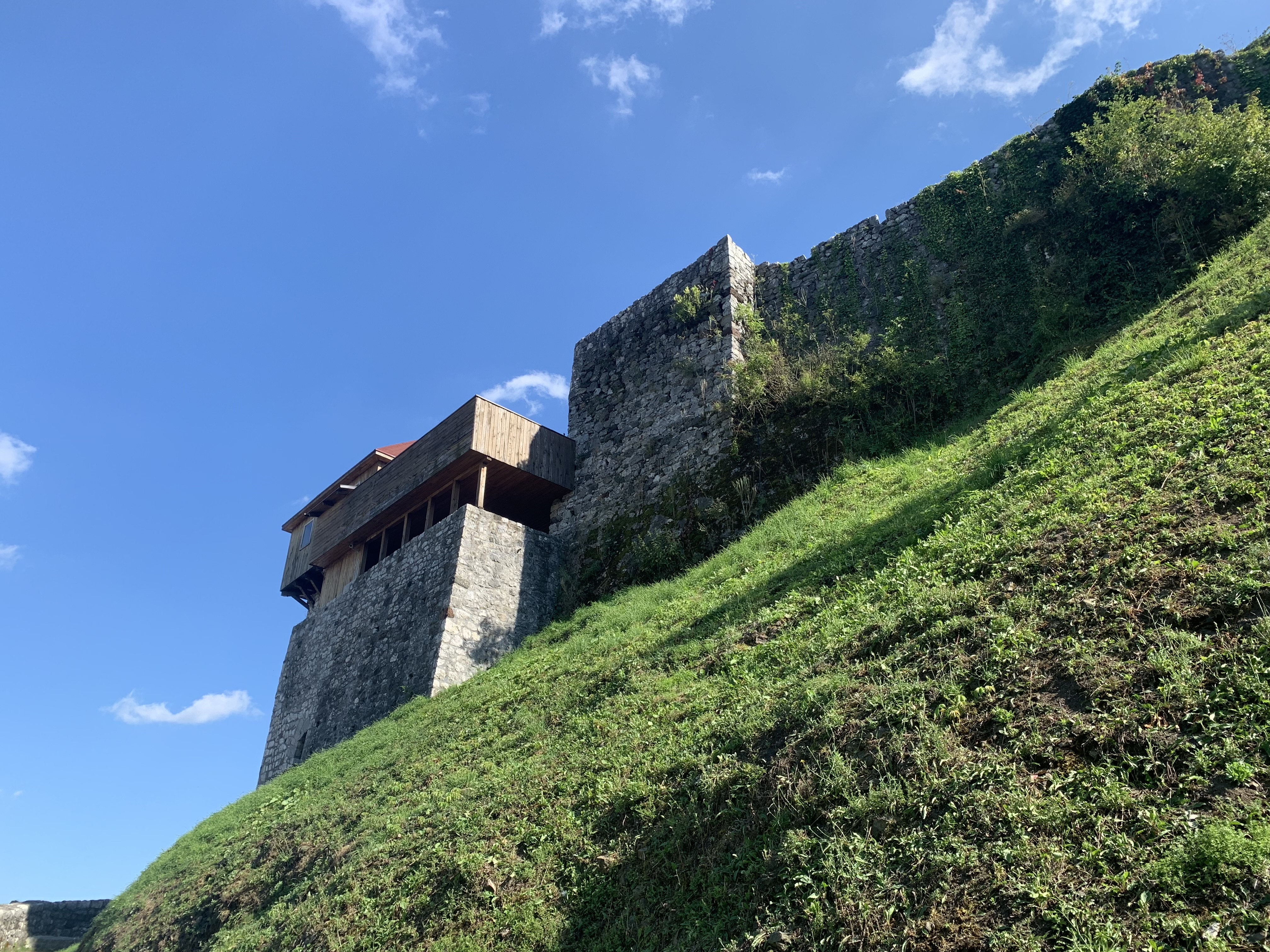 Watchtower